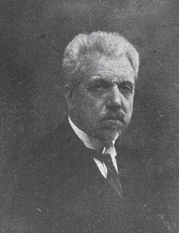 Portrait of IMARO member Hristo Stanishev